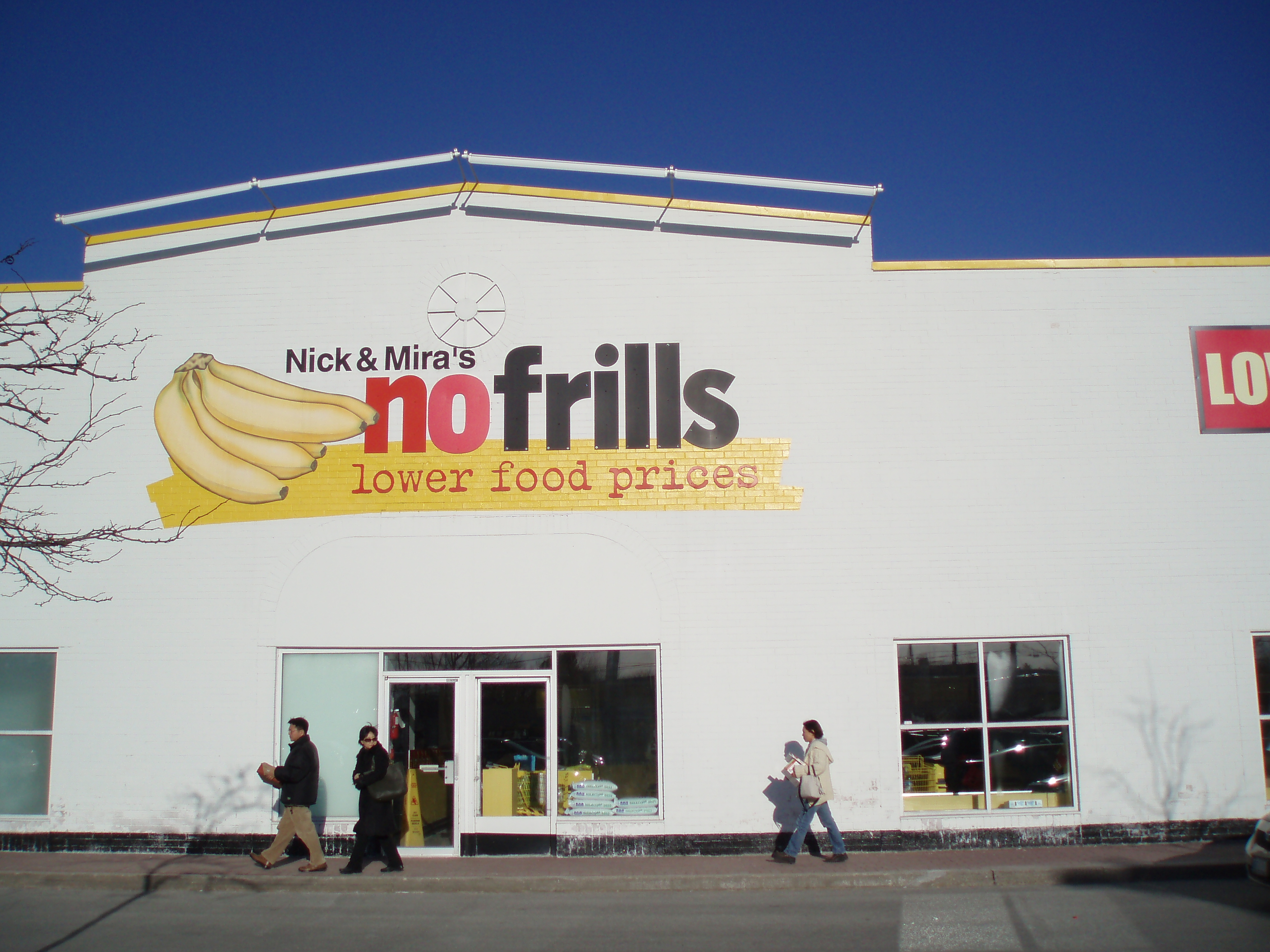 Nick & Mira's No Frills 13071 Yonge St, Richmond Hill, ON L4E 1A5